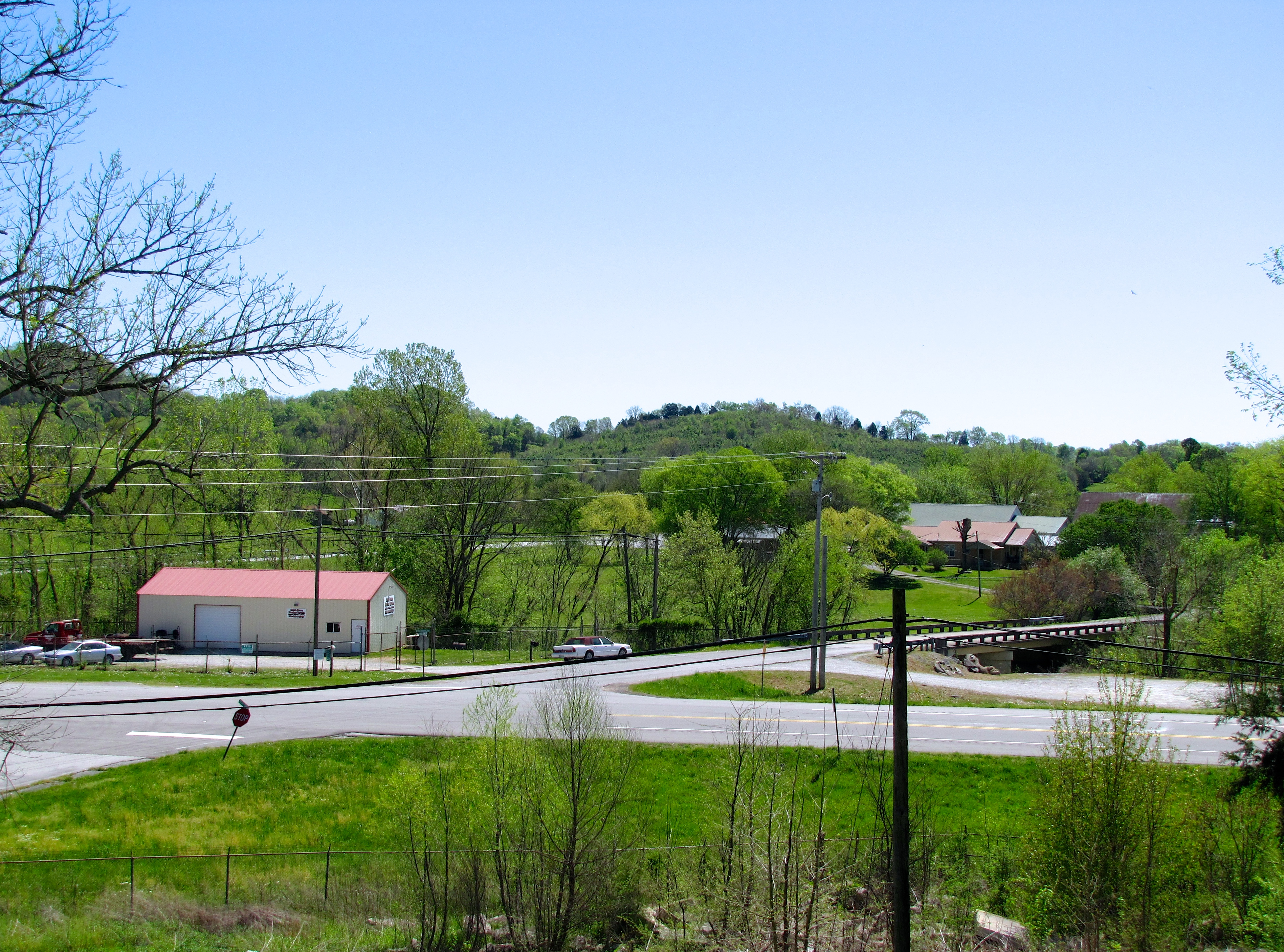 Houses and buildings in Beechgrove, in Coffee County, Tennessee, United States. State Route 64 is below.